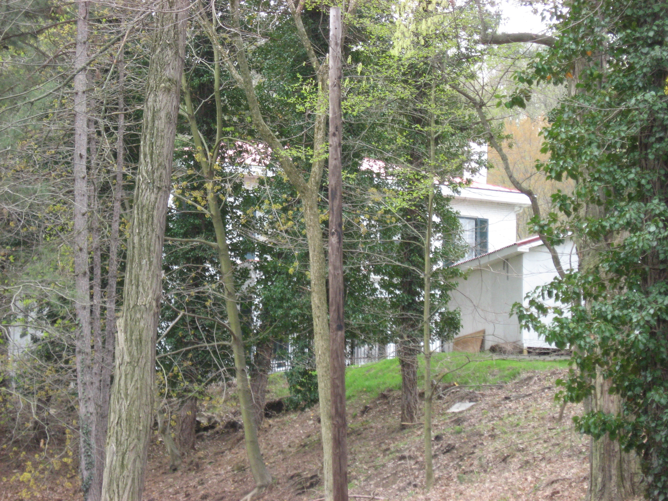 View through the trees of the Gen. I.H. Duval Mansion, located at 1222 Pleasant Avenue in Wellsburg, West Virginia, United States. Built in 1858, it is listed on the National Register of Historic Places.